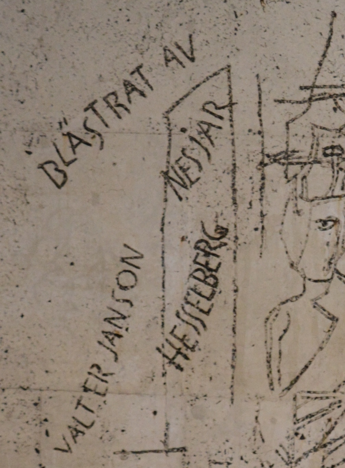 Ristningari betong, Östermalms tunnelbanestation, Stockholm. Nesjar = Carl Nesjaqr Hesselberg= Erik Hesselberg